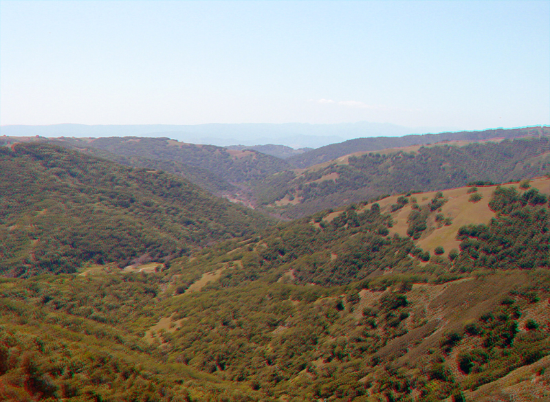 Henry W. Coe State ParkHenry Coe State Park — in the Diablo Range, Santa Clara County, Northern California. Looking west over Hunting Hollow and the chaparral and woodlands habitat, at the southern end of the park. From [1].